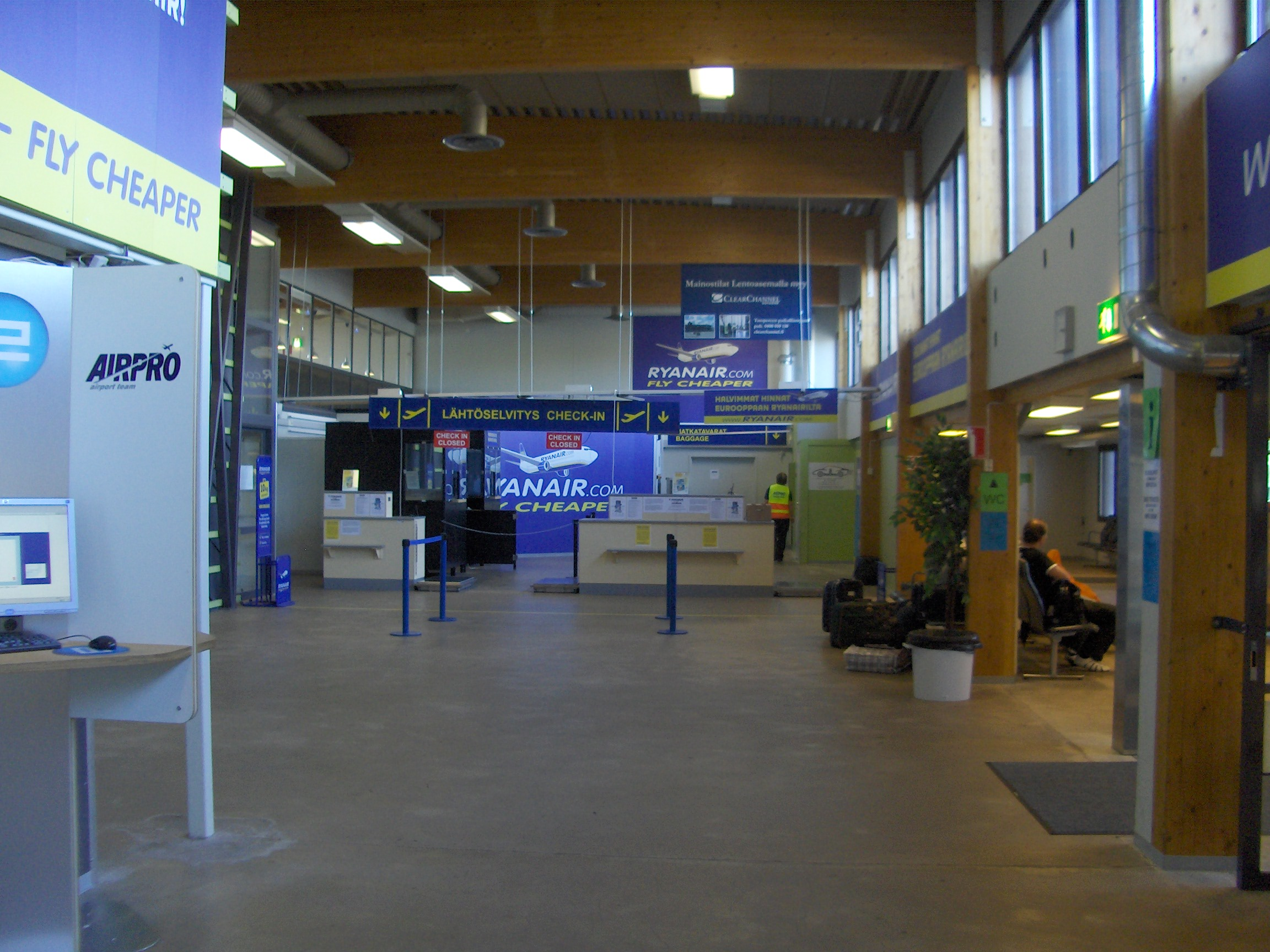 Tampere-Pirkkala airport terminal 2 public area